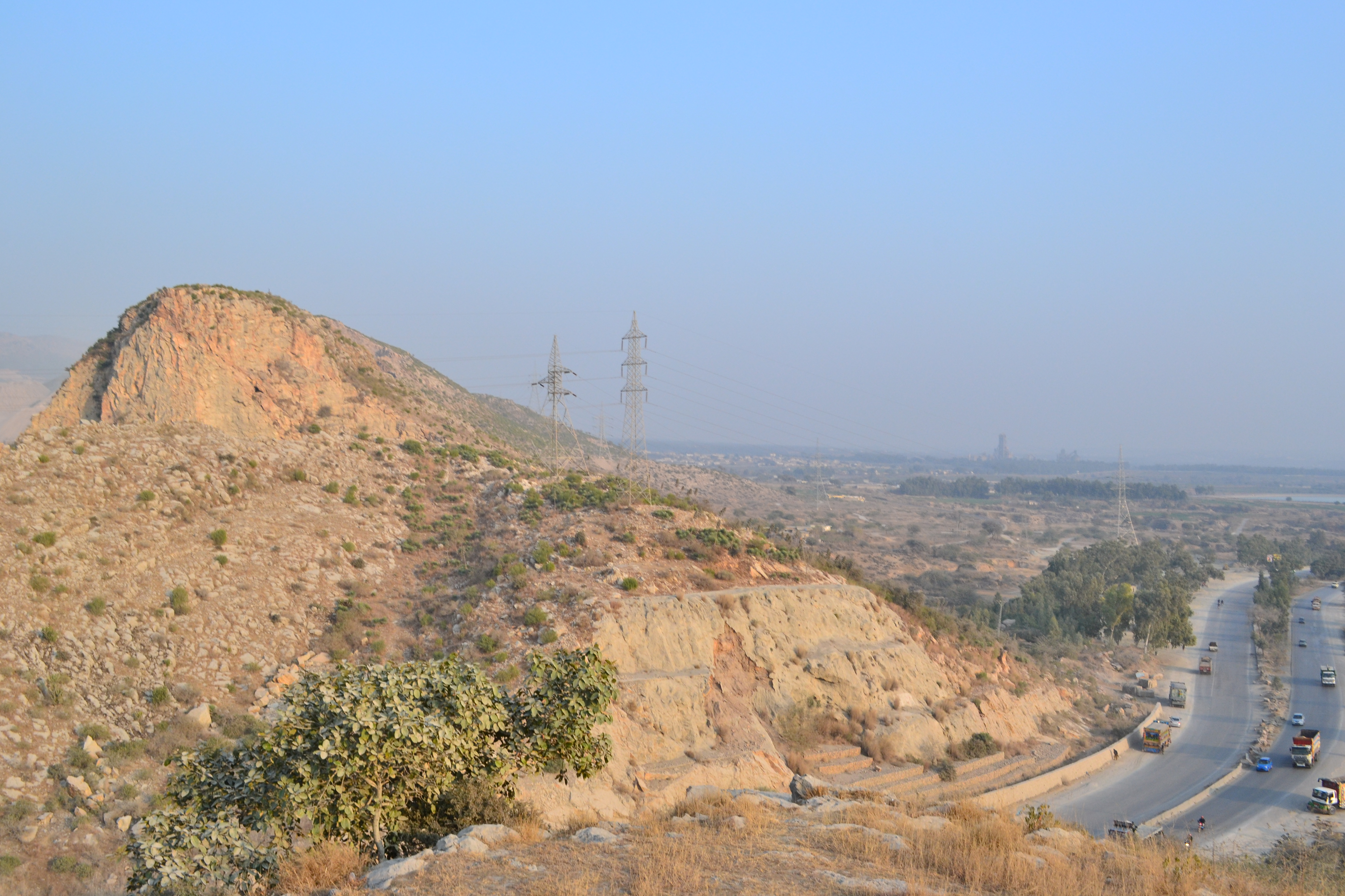 Nekka Margalla is the westernmost point of the Margalla Range below 600 m